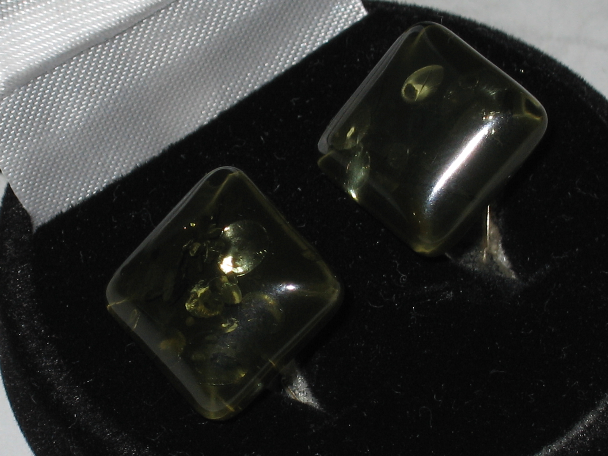 Cuff links made of steel and green amber